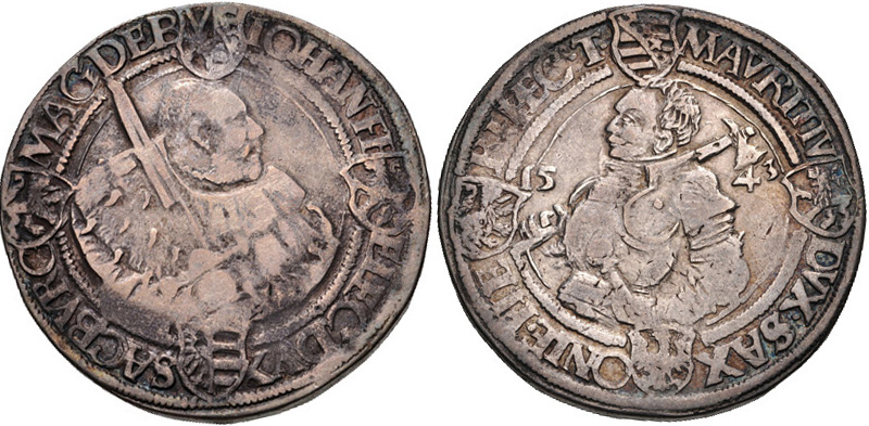 GERMANY, Sachsen-Ernestinische Linie (Kurfürstentum). Johann Friedrich I der Großmütige (the Magnanimous), with Moritz. 1532-1547. AR Taler (39mm, 28.75 g, 1h). Buchholz mint. Dated 1543. Mantled bust of Johann Friedrich right, holding sword; four coats-of-arms around / Armored bust of Moritz left, holding axe; four coats-of-arms around. Davenport 9735. Near VF. Scarce.